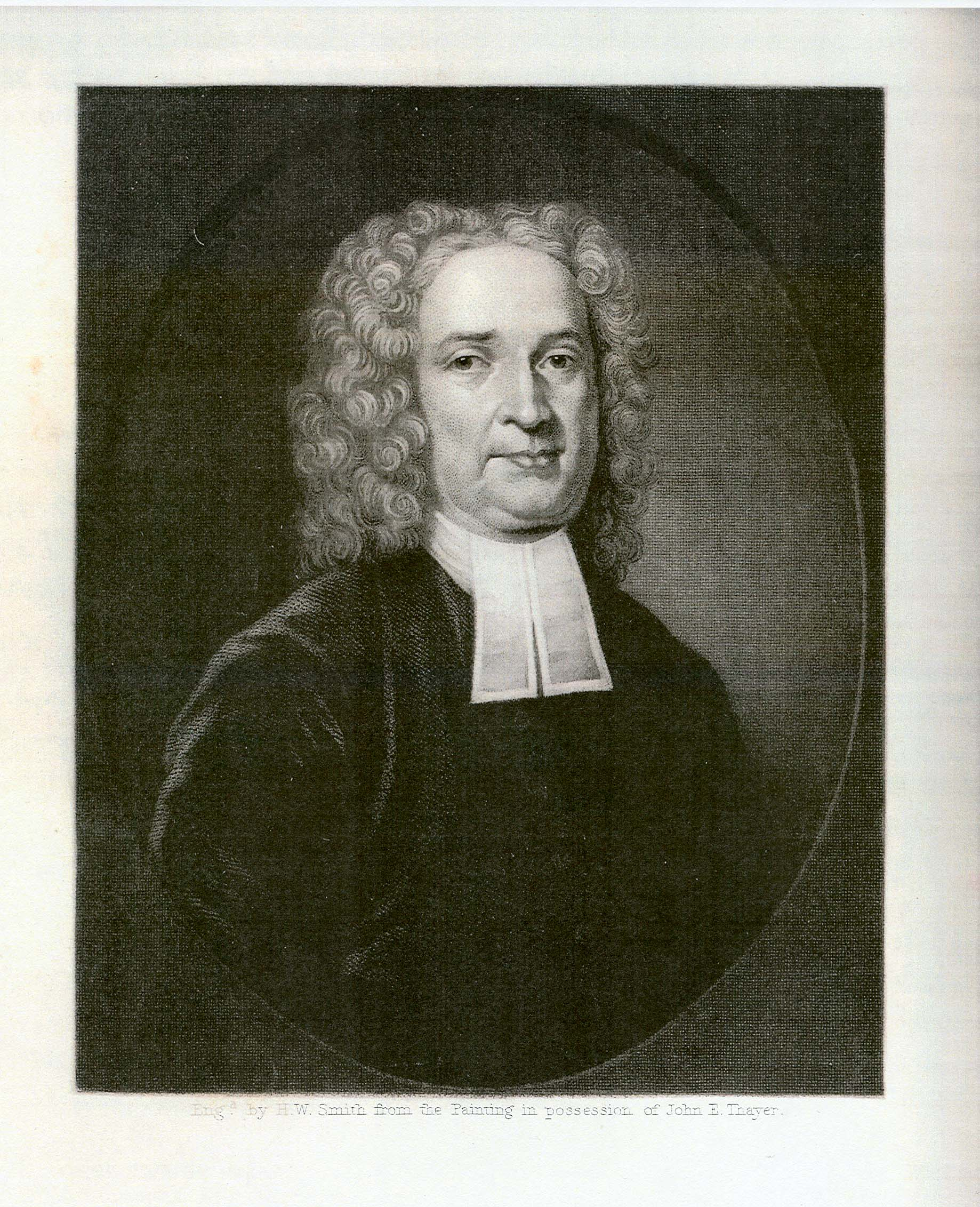 Rev. John Cotton (1585–1652). (It also might be Rev. John Cotton’s grandson, Josiah Cotton (1679-1756), Justice of the Peace in Plymouth, or a great grandson of Rev. John Cotton, John Cotton (1693- ), the third minister of Newton, Massachusetts. See details for additional information: RESEARCH INTO PORTRAIT/S OF REV. JOHN COTTON.